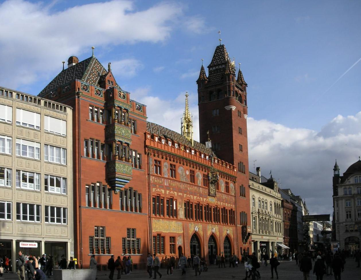 Rathaus of Basel